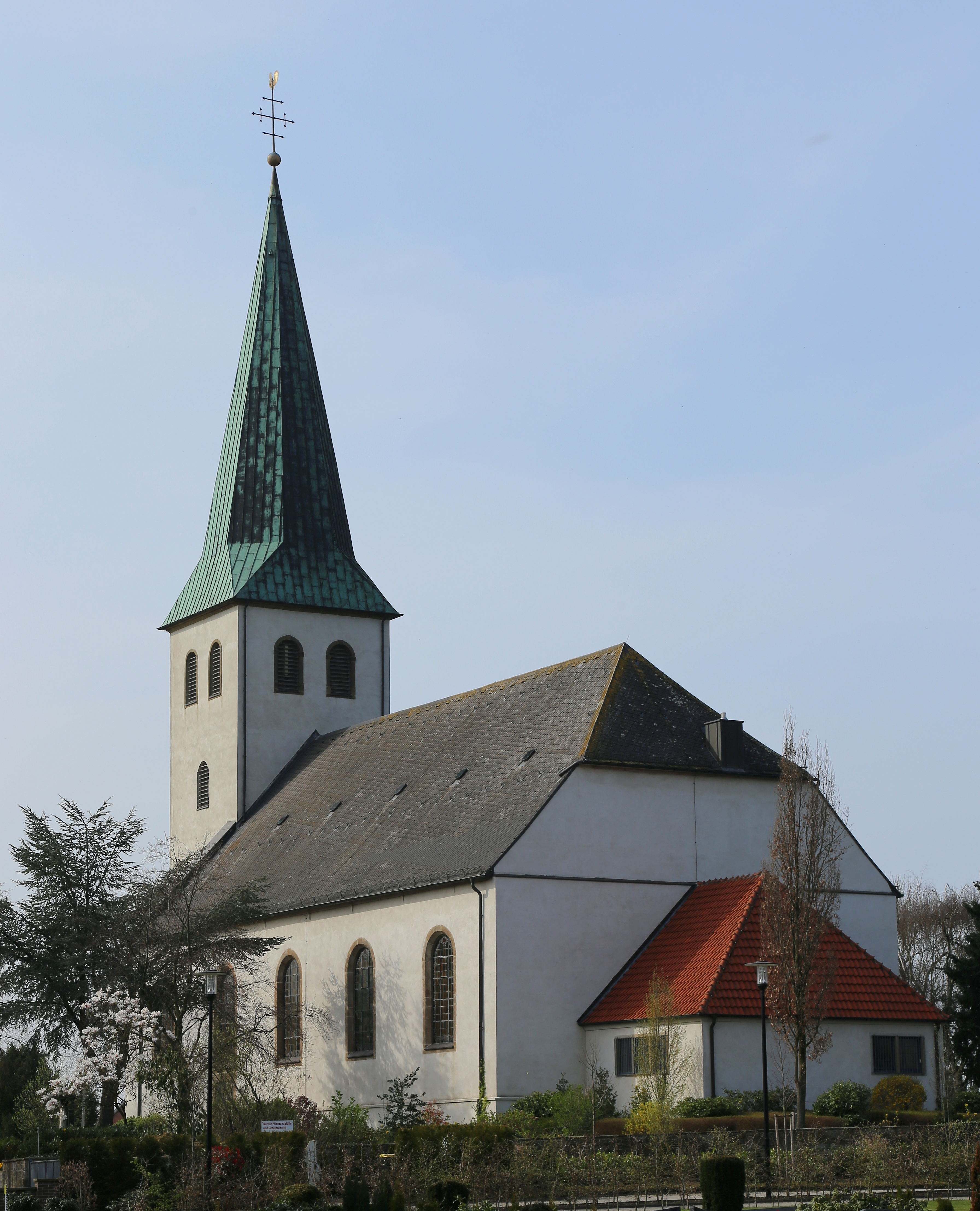 Roman Catholic Saint Catherine Church (Pfarrkirche St. Katharina) in Voltlage, Samtgemeinde Neuenkirchen, Landkreis Osnabrück, Lower Saxony, Germany.